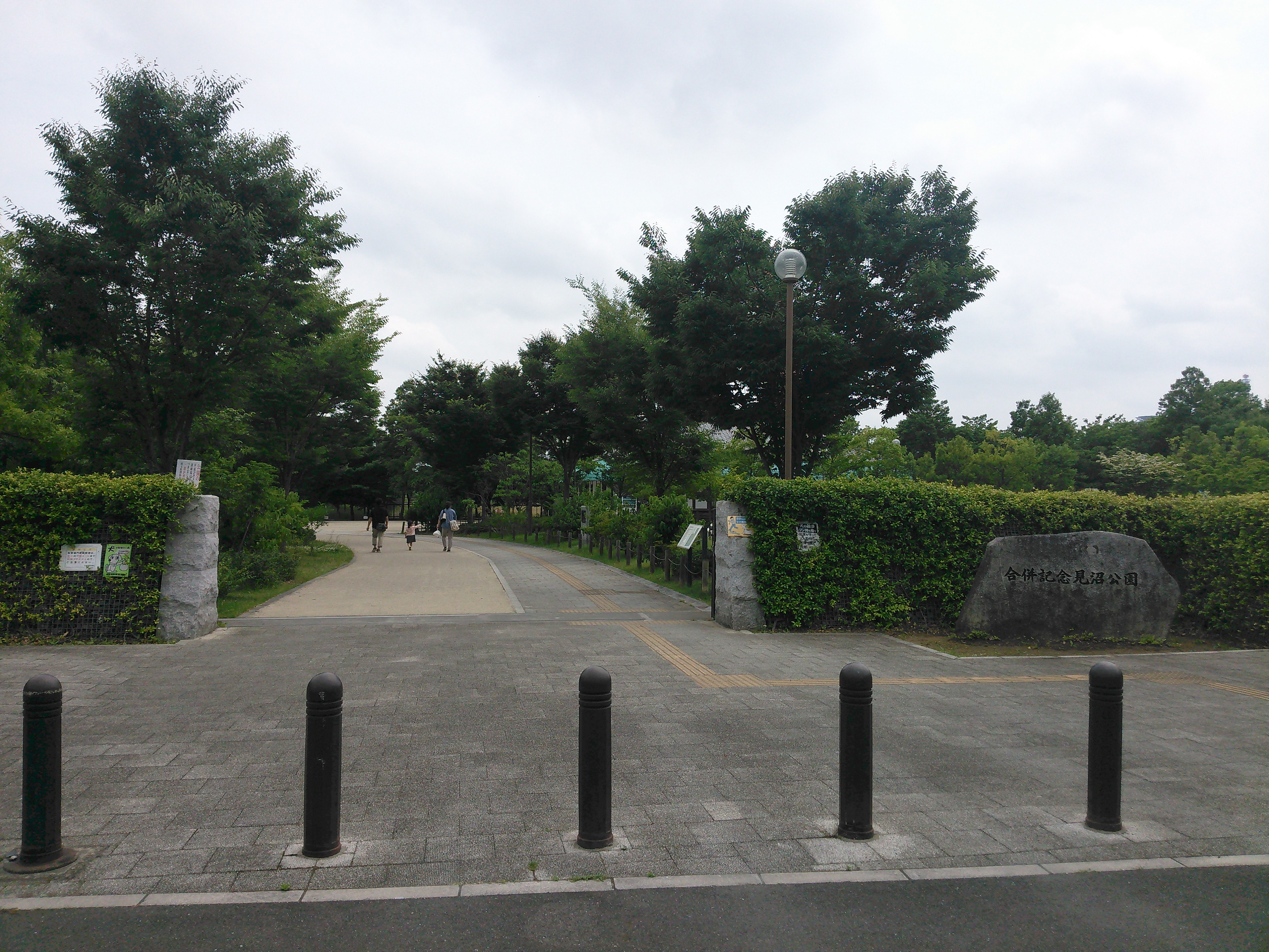 Gappei Kinen Minuma Park in Saitama City, Japan